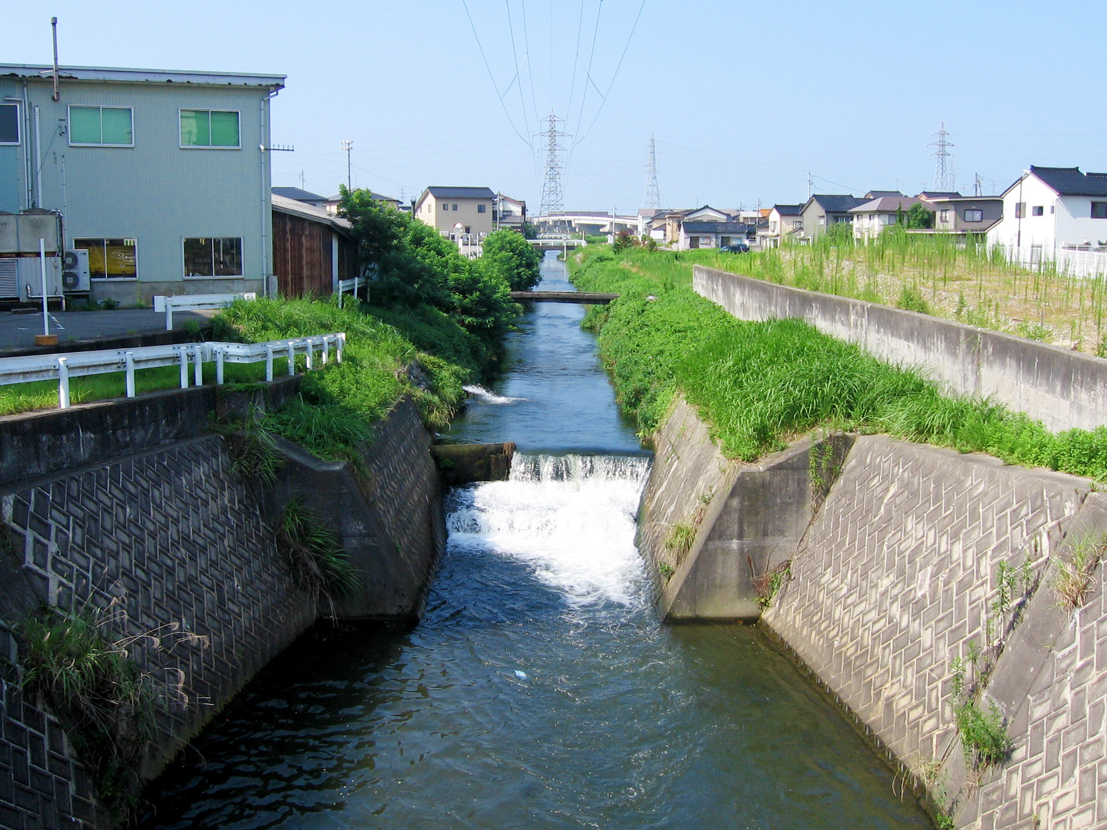 Jikushi River